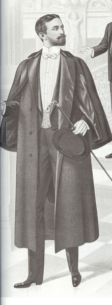 A 1901 fashion plate of a formal Inverness coat